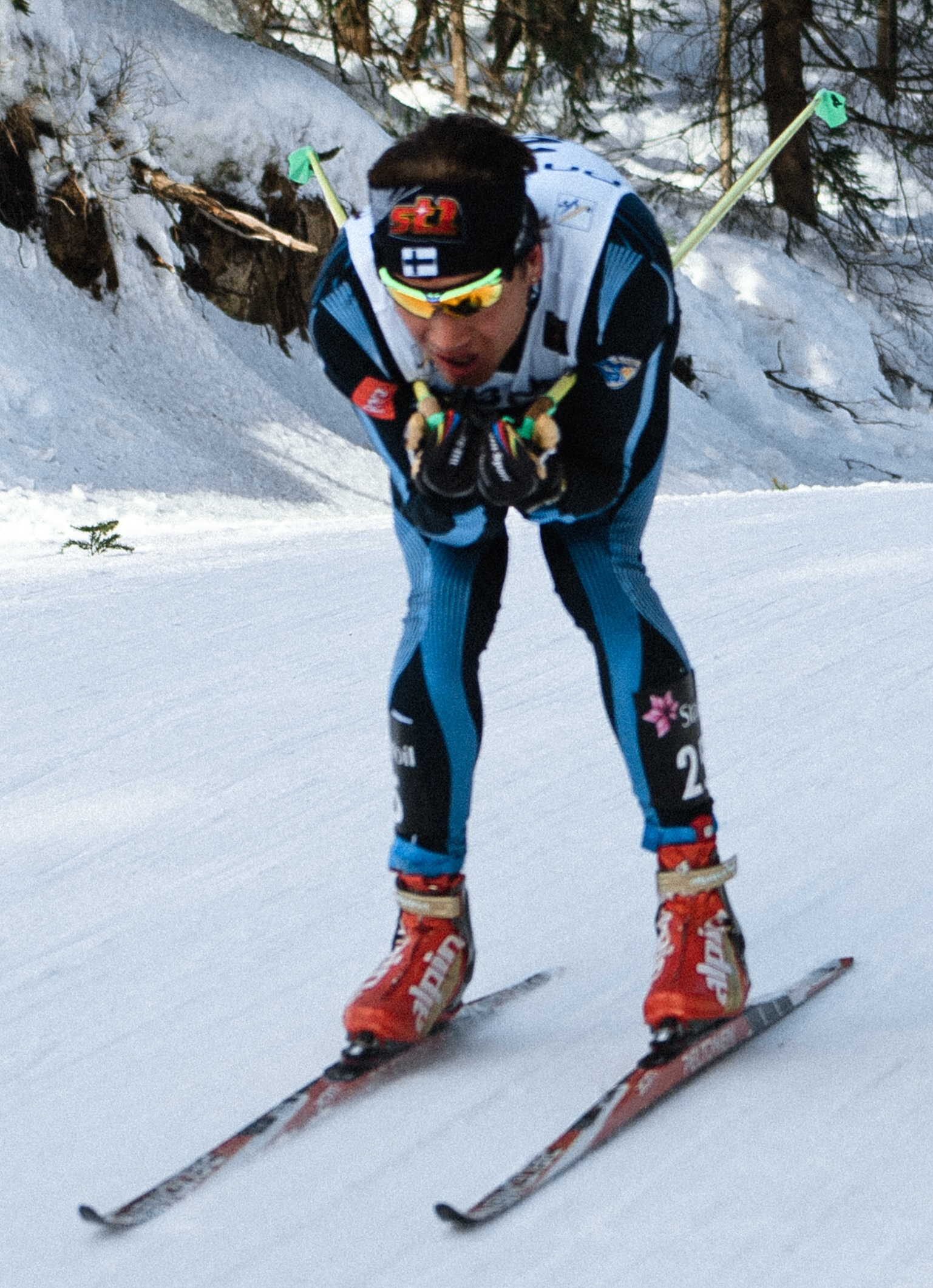 Ville Nousiainen at the 50km FIS 2011 World Championship race in Holmenkollen, Norway